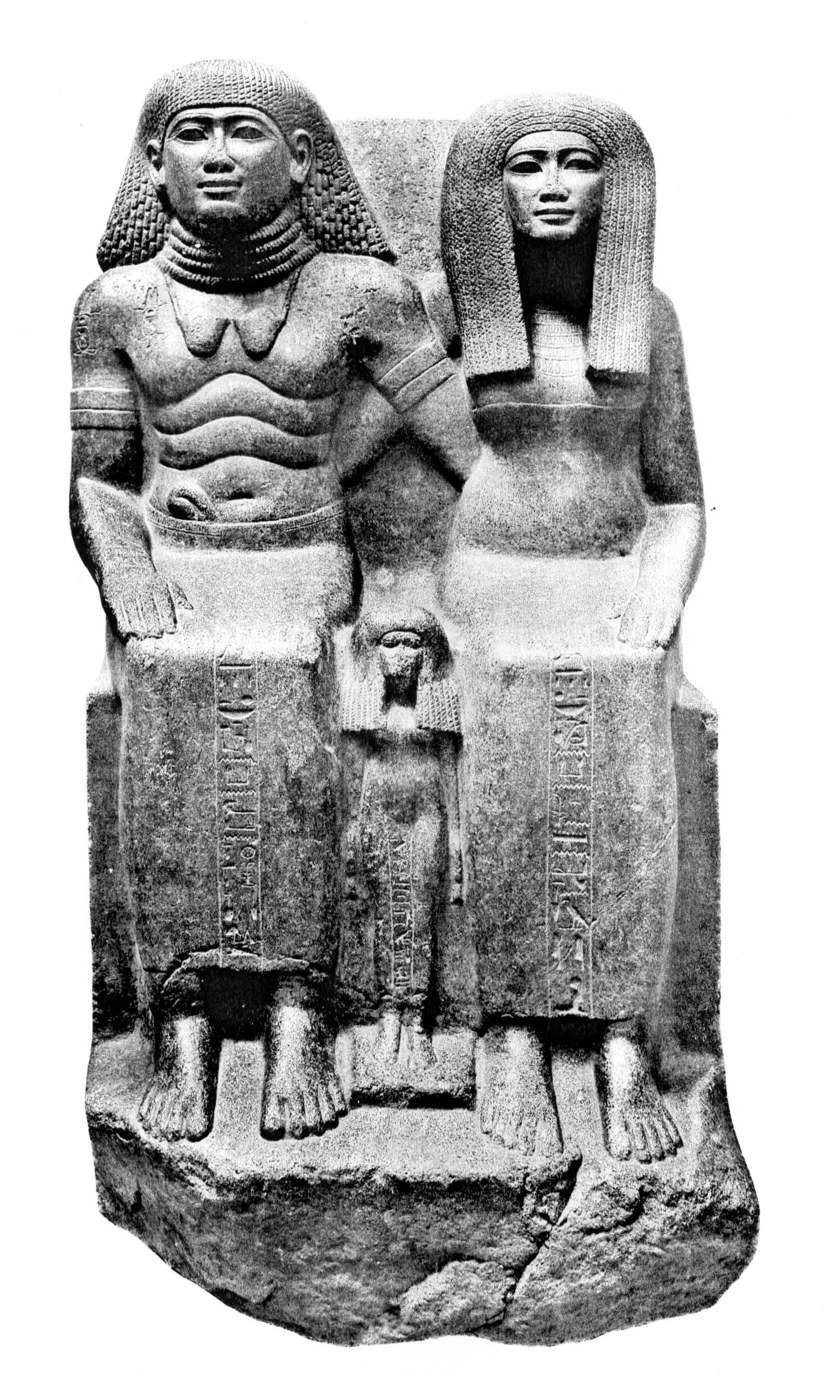 Group of the nobleman and mayor of Thebes Sennefer, his wife Sentnay and their daughter Mutnefert between them; other daughters in relief on sides. From Karnak.